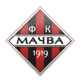 Logo of FK Mačva